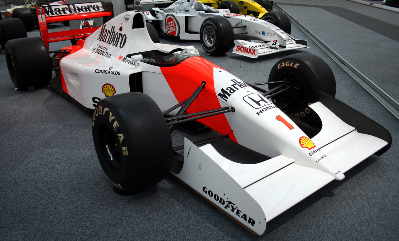 1992 McLaren MP4/7A of Ayrton Senna